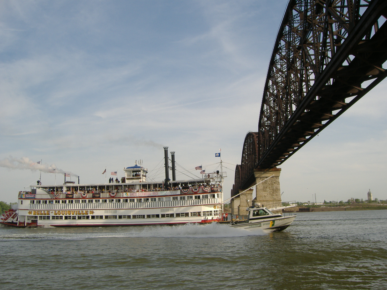 Image of the Belle of Louisville going downstream under the Big Four Bridge in the 2008 Great Steamboat Race.